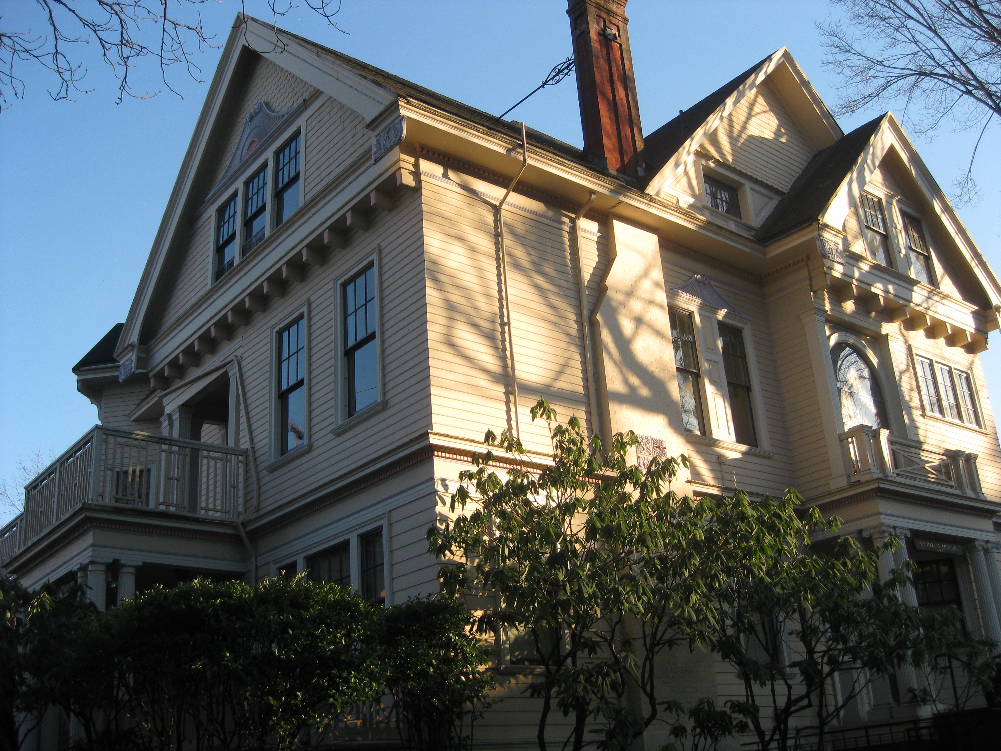 The historic Durham–Jacobs House (built 1892) located at 2138 SW Salmon Street in Portland, Oregon, United States, is listed on the US National Register of Historic Places (NRHP). It is also part of the NRHP-listed King's Hill Historic District.NRHP reference number 87000307